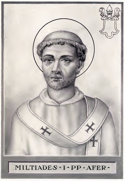 This illustration is from The Lives and Times of the Popes by Chevalier Artaud de Montor, New York: The Catholic Publication Society of America, 1911. It was originally published in 1842.